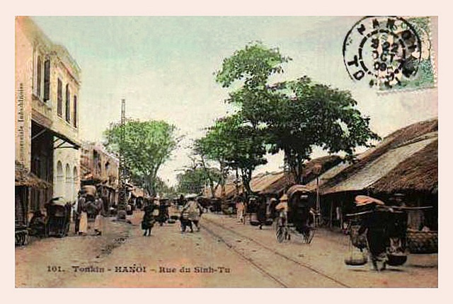 sdfsds